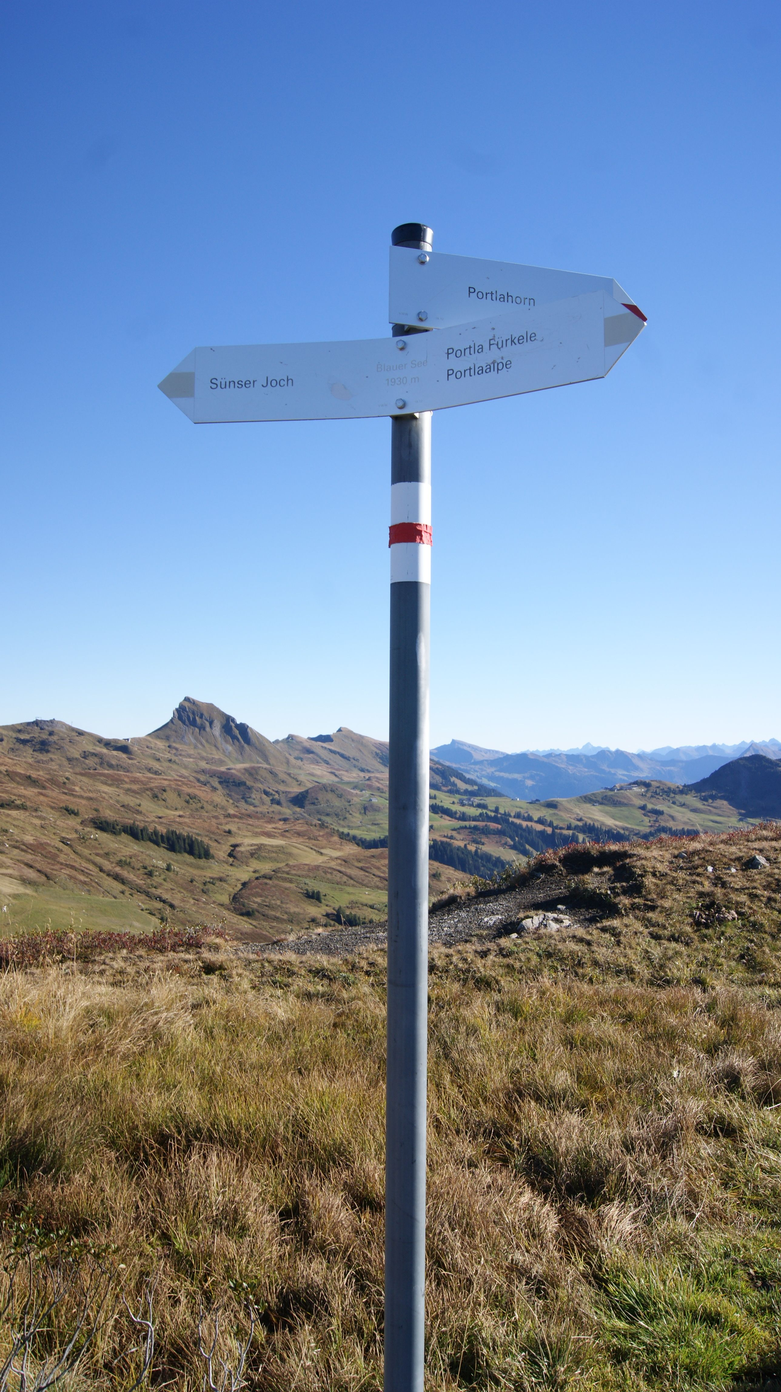 Fingerpost on the Suenserjoch (also "Ragazerjoch", 1911 masl) in Dornbirn, Vorarlberg, Austria.